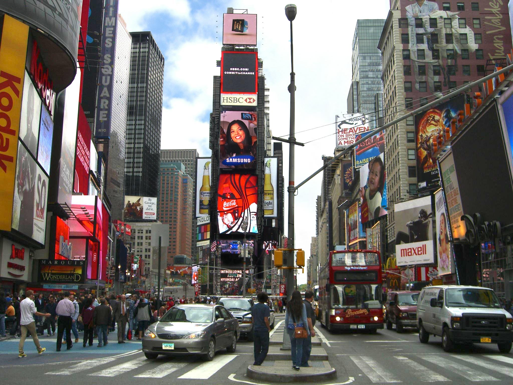 Times Square, on April 29, 2011.Photographed by Luigi Novi. This photo is not in the public domain. It may, however, be used, modified and published for any purpose, free of charge, only if the photographer is properly credited, either by linking the photograph to this page, or with an easily visible credit to the photographer placed near the photo in each instance in which it is used. (See licensing information below.) Publication of this photo without this proper attribution constitutes copyright infringement. If you have any questions, you can contact me on my Wikipedia Talk Page.